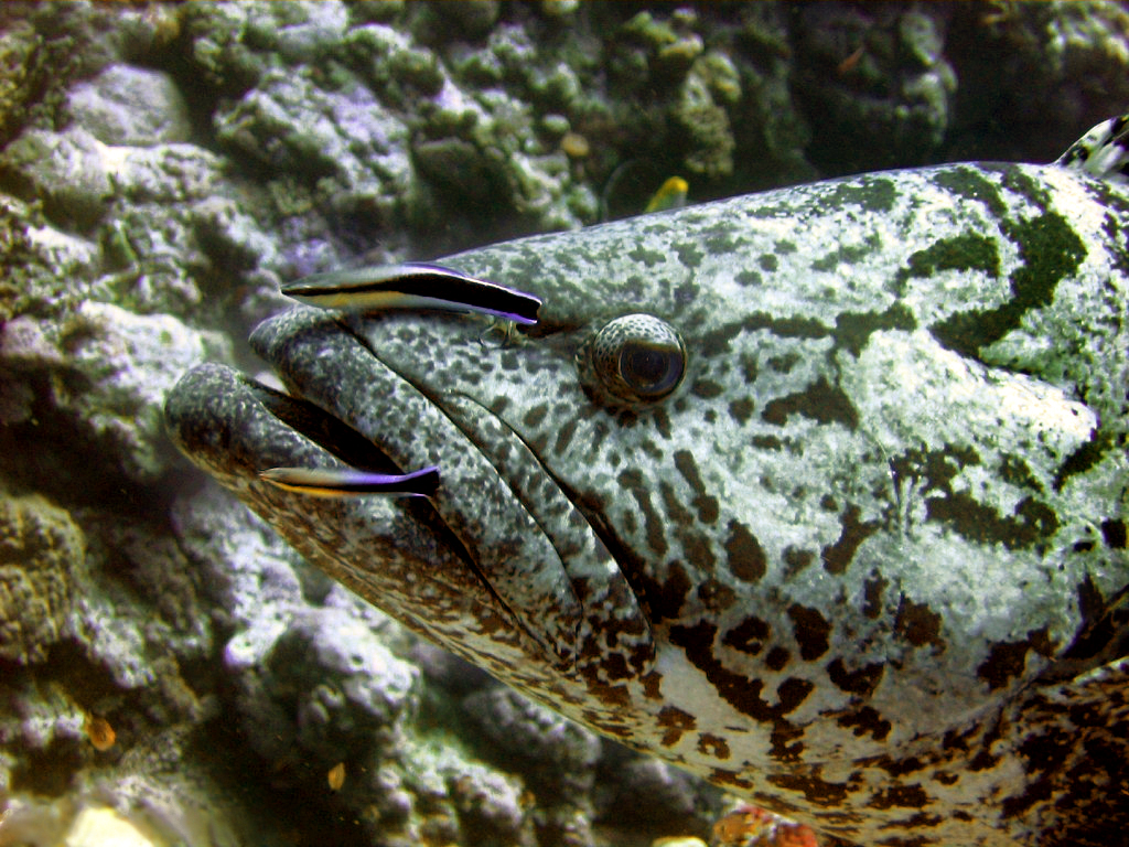 A Potato Cod (Epinephelus tukula) is cleaned by two Striped Cleaner Wrasse (Labroides dimidiatus). North Horn, Osprey Reef, Coral Sea